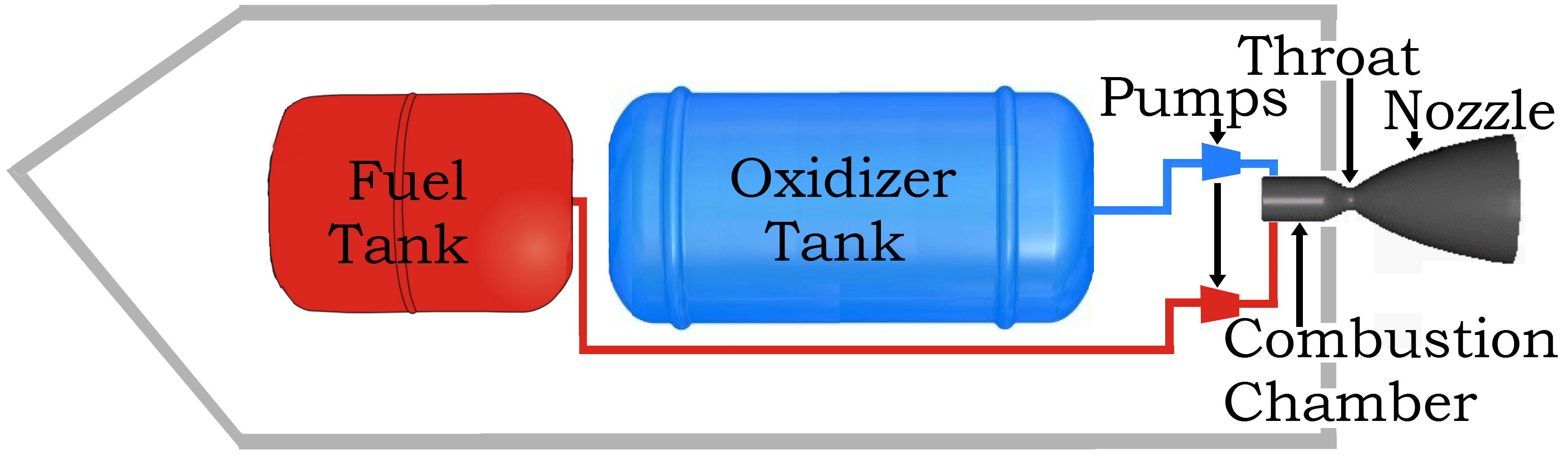 Liquid rocket schematic.